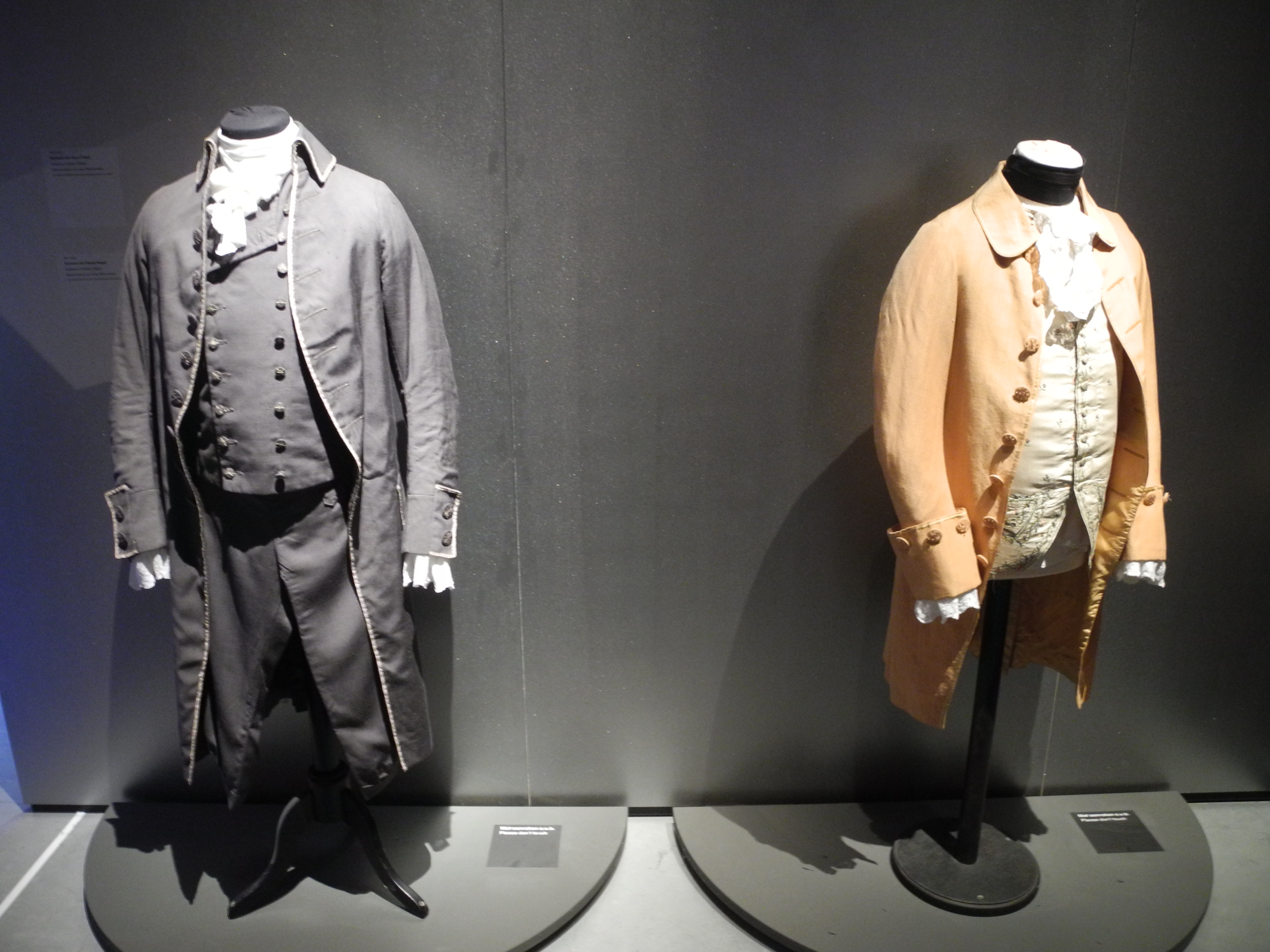 Original suits from Stanley Kubrick's Barry Lyndon.